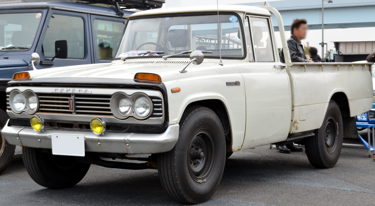 Toyota Stout